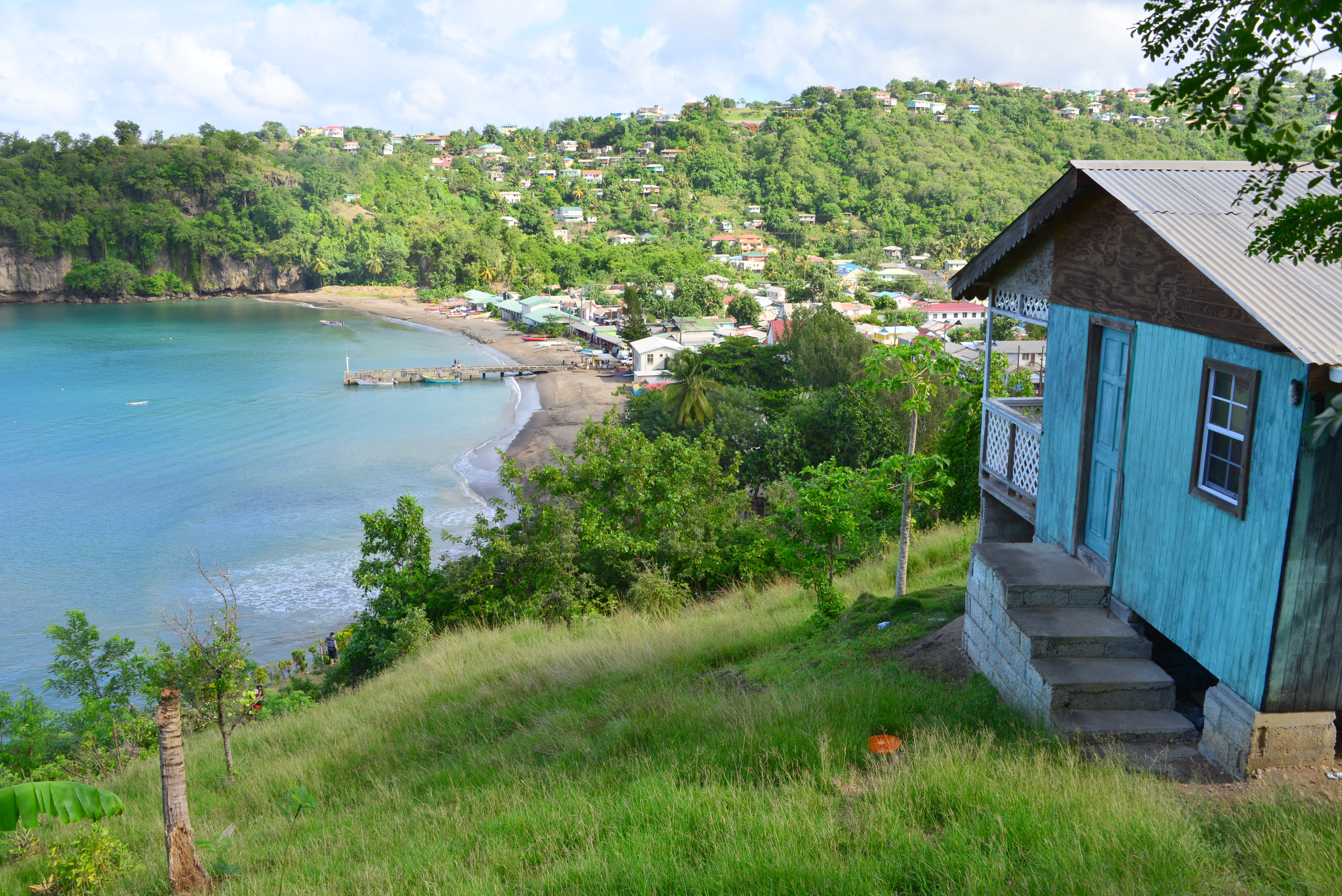 Unnamed Road, Saint Lucia